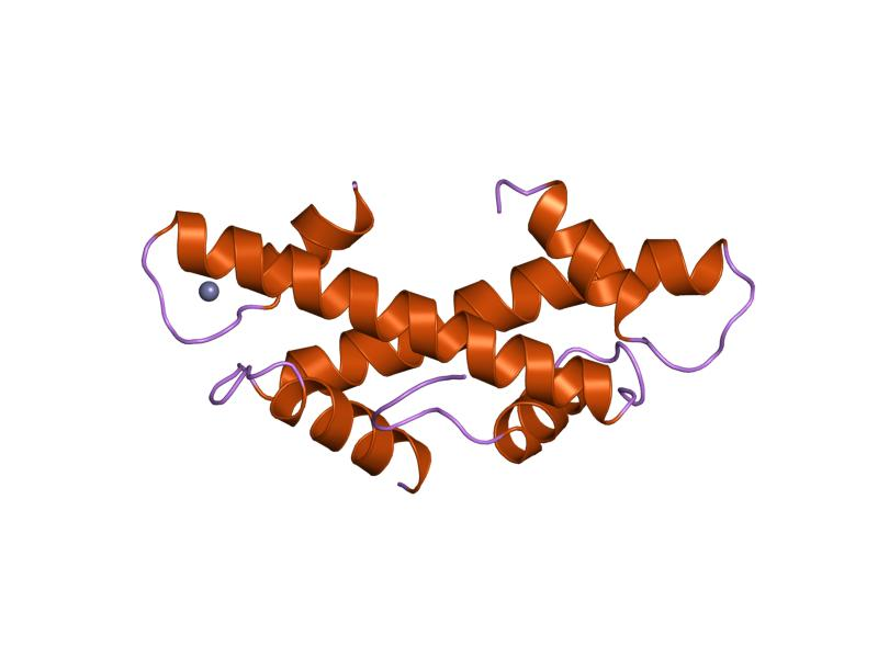 Cartoon representation of the molecular structure of protein registered with 1taf code.